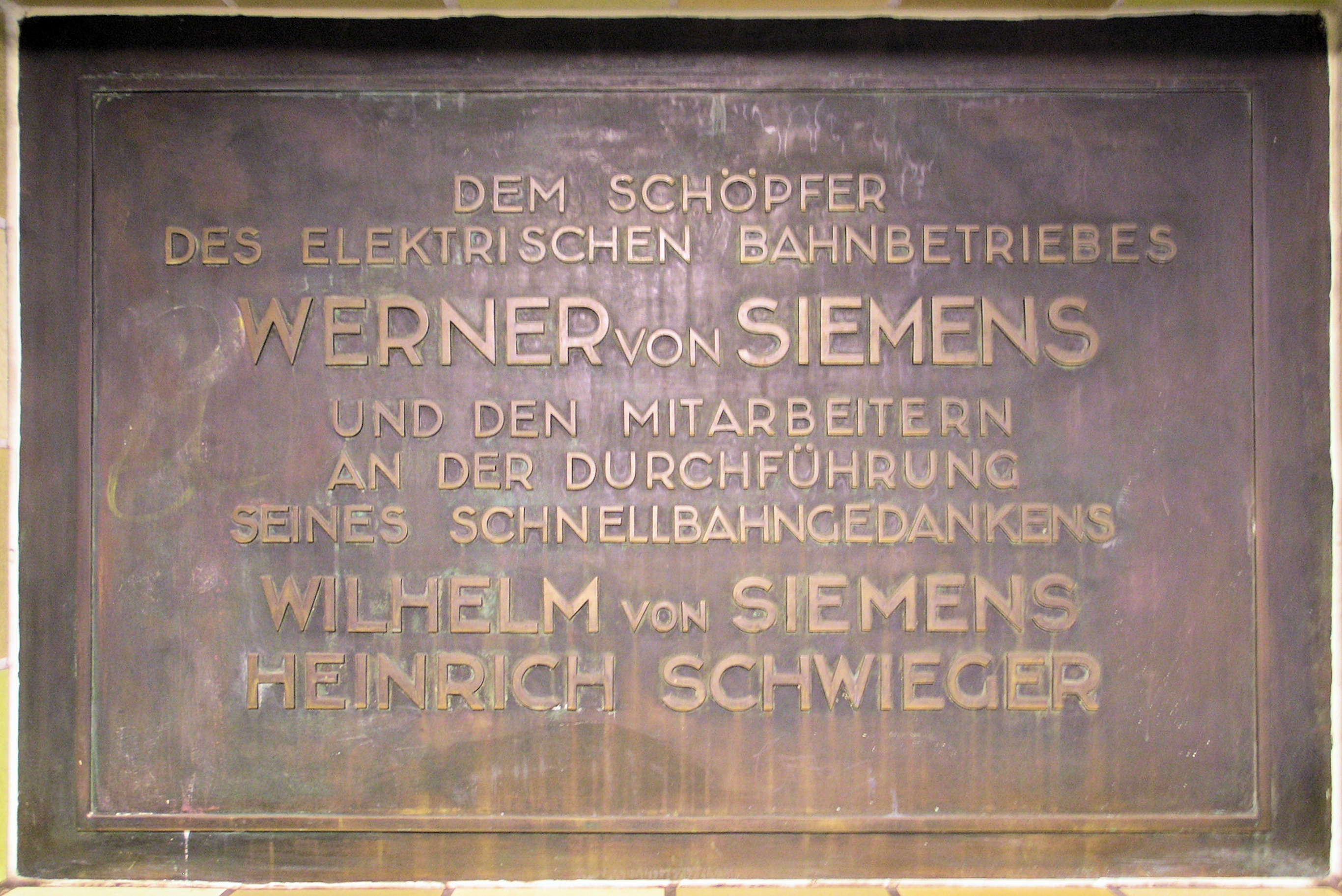 Memorial plaque, Werner von Siemens, Nollendorfplatz, Berlin-Schöneberg, Germany Koordinate:52°29′59″N 13°21′13″E / 52.49972°N 13.35361°E